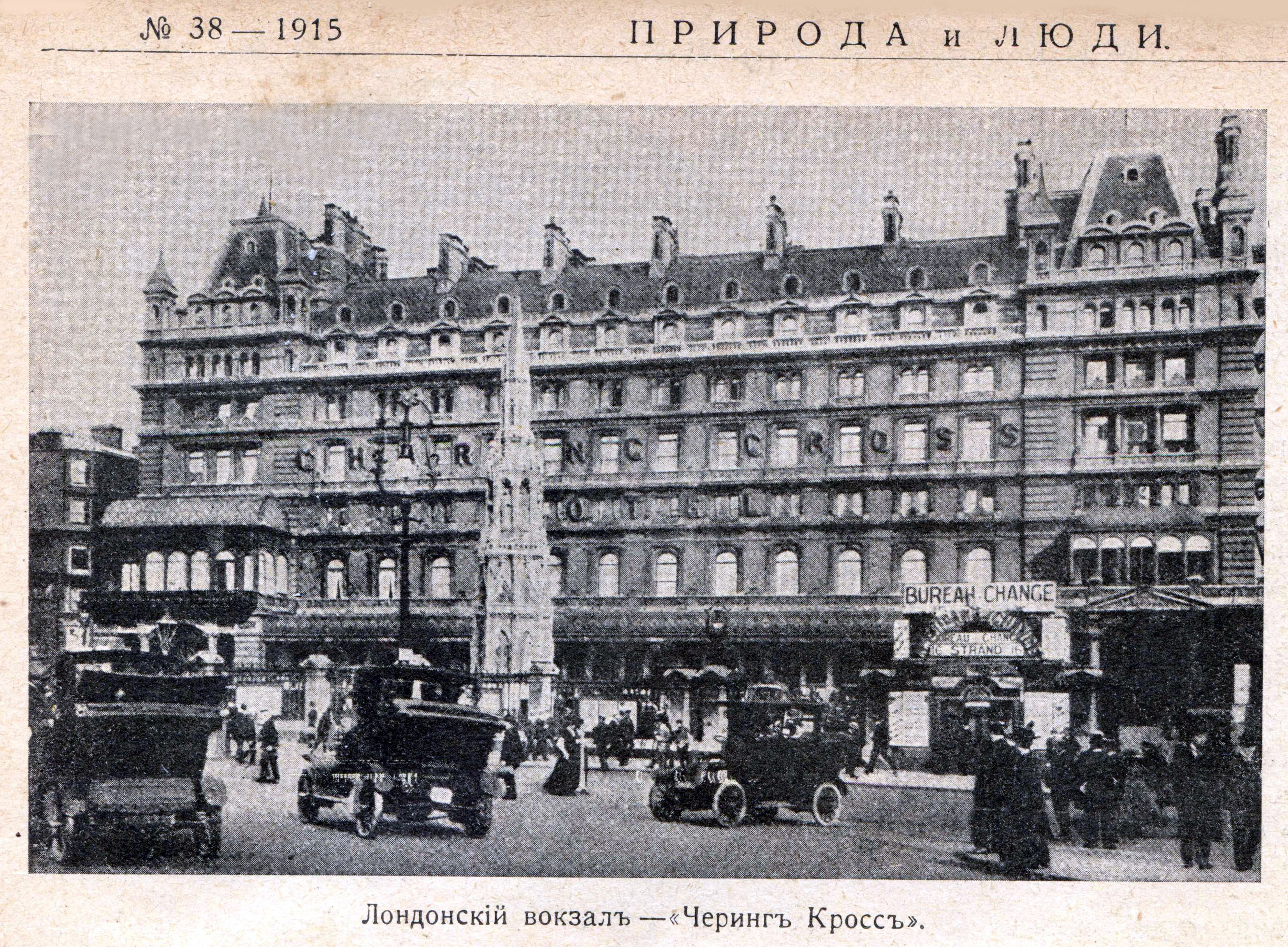 London, Chering Cross.